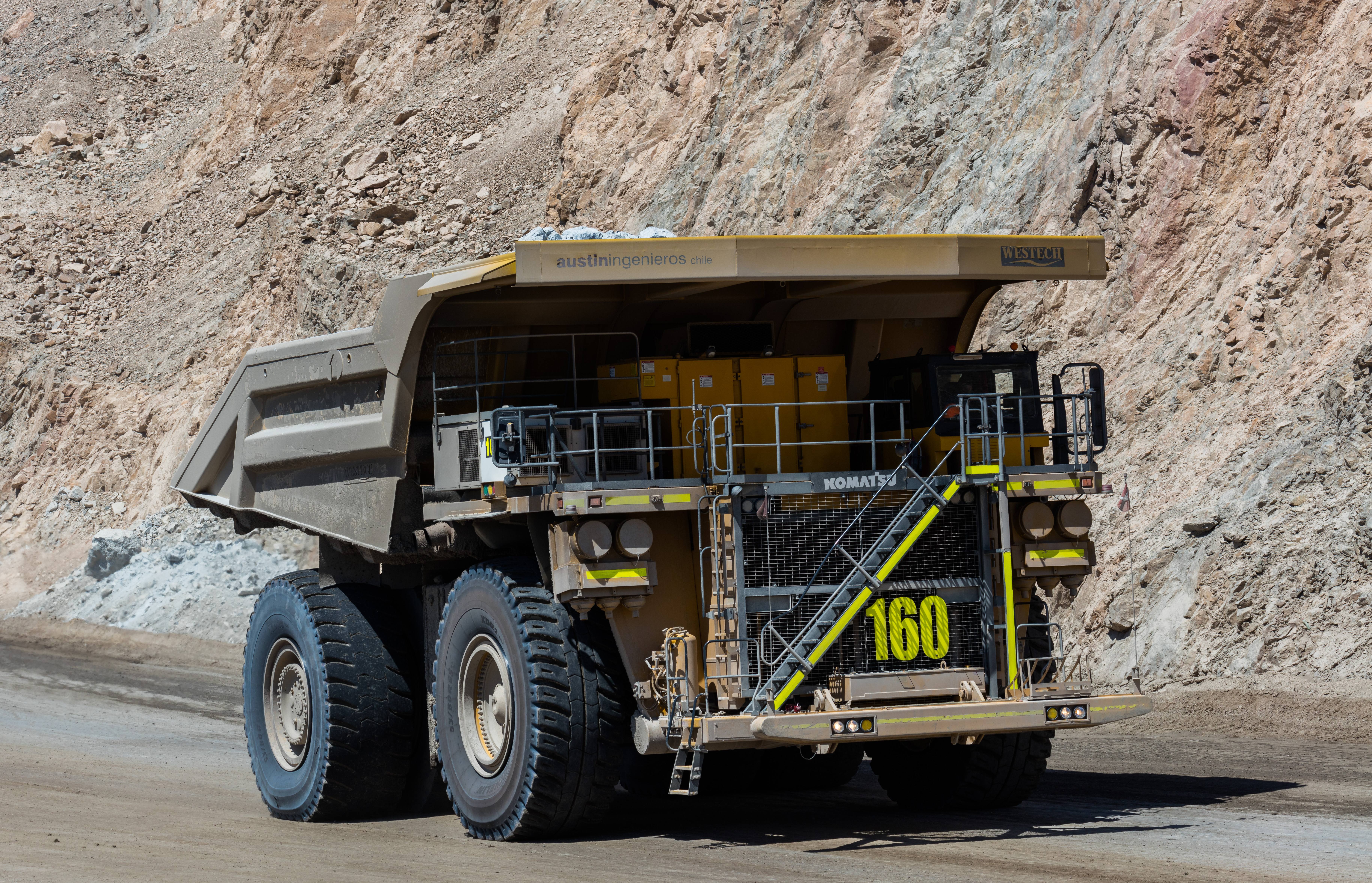 Komatsu haul truck, Chuquicamata Mine, Calama, Chile